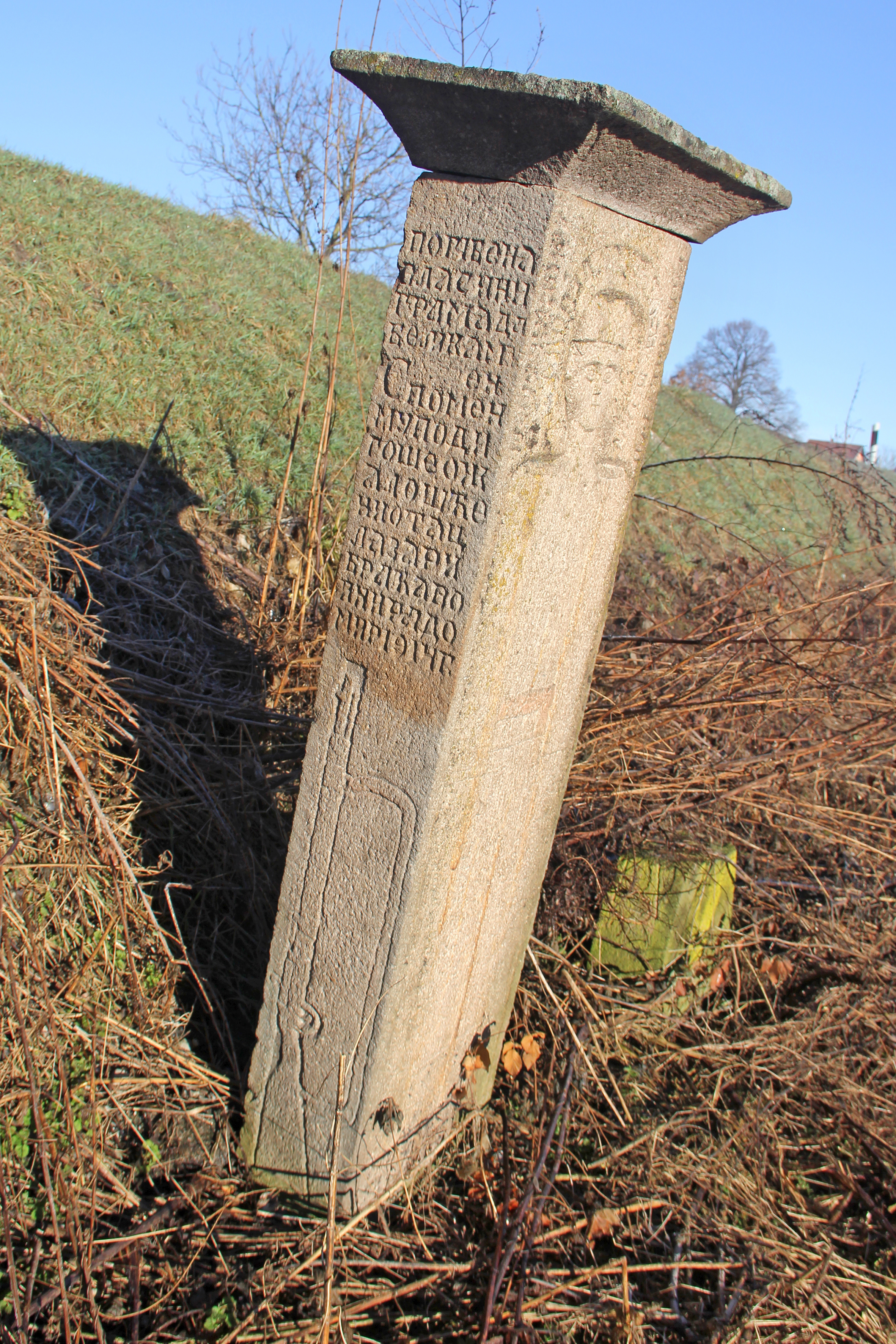 Roadside tombstone erected in memory of Milorad Z Lazic, a soldier that was killed in 1913 in the Second Balkan War. It is located in the village Svrackovci (municipality of Gornji Milanovac), Serbia.